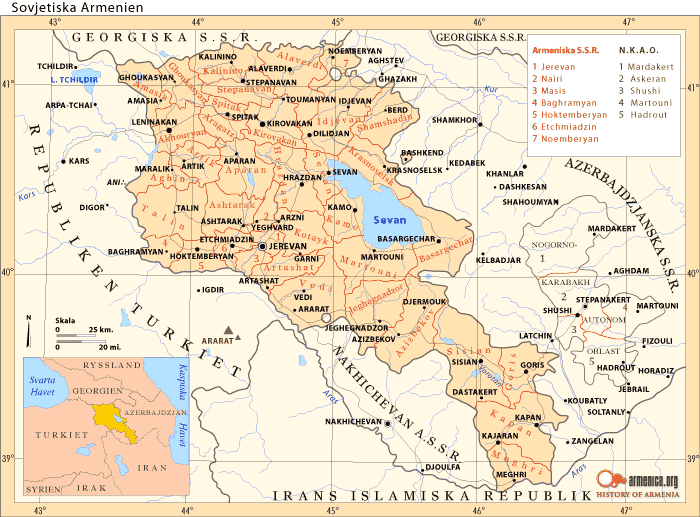 Armeniska SSR och enklaven Nagorno-Karabach med den av Stalin skapade Latchin-korridoren samt gemensamma gränsen mellan Turkiet och Nachitjevan.